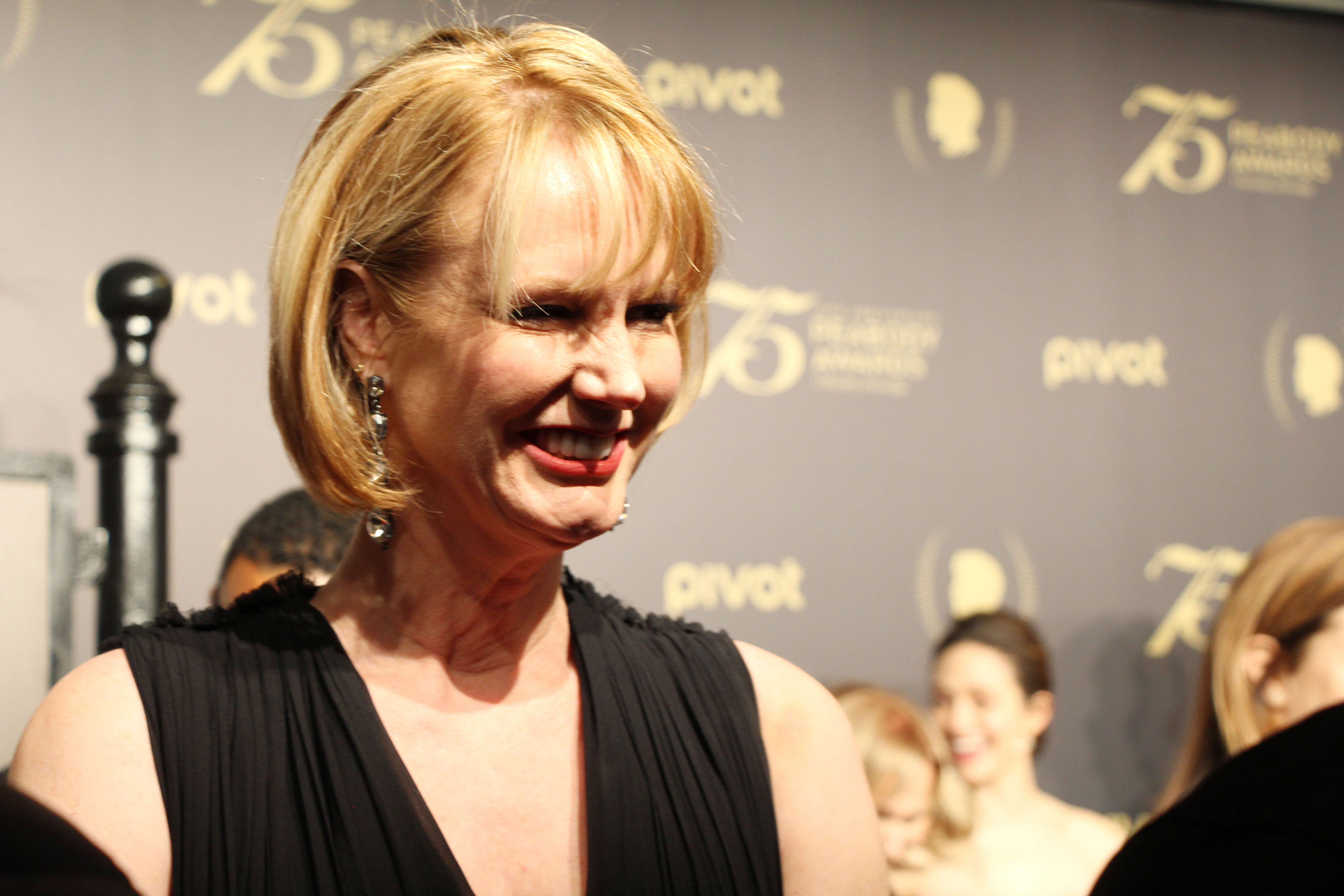 This photo includes Melissa Rosenberg, the creator and showrunner of "Marvel's Jessica Jones." (Photo/Sarah E. Freeman/Grady College, in New York City, Georgia, on Saturday, May 21, 2016)